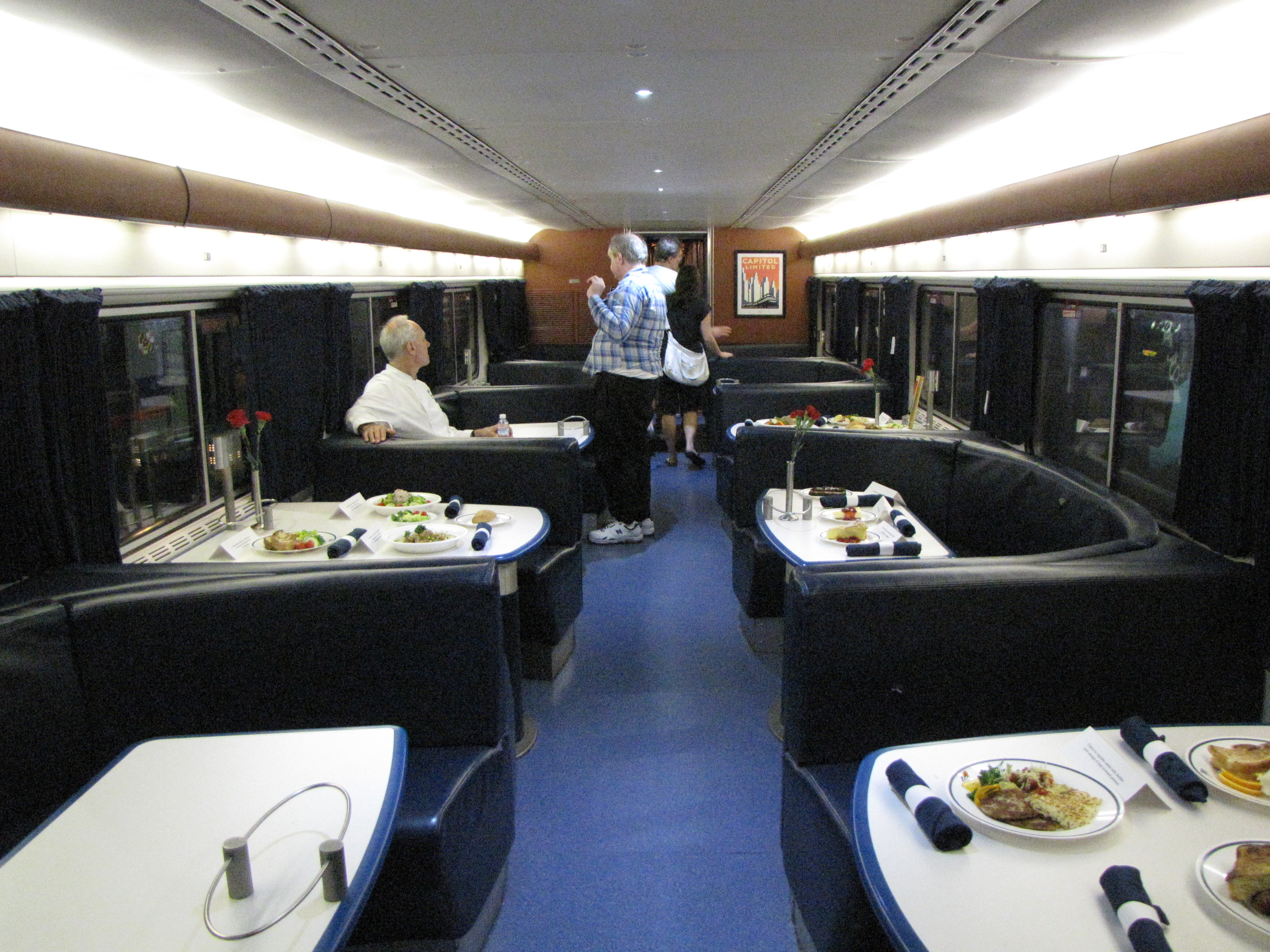 Amtrak Superliner dining car, after late-2000s remodel.